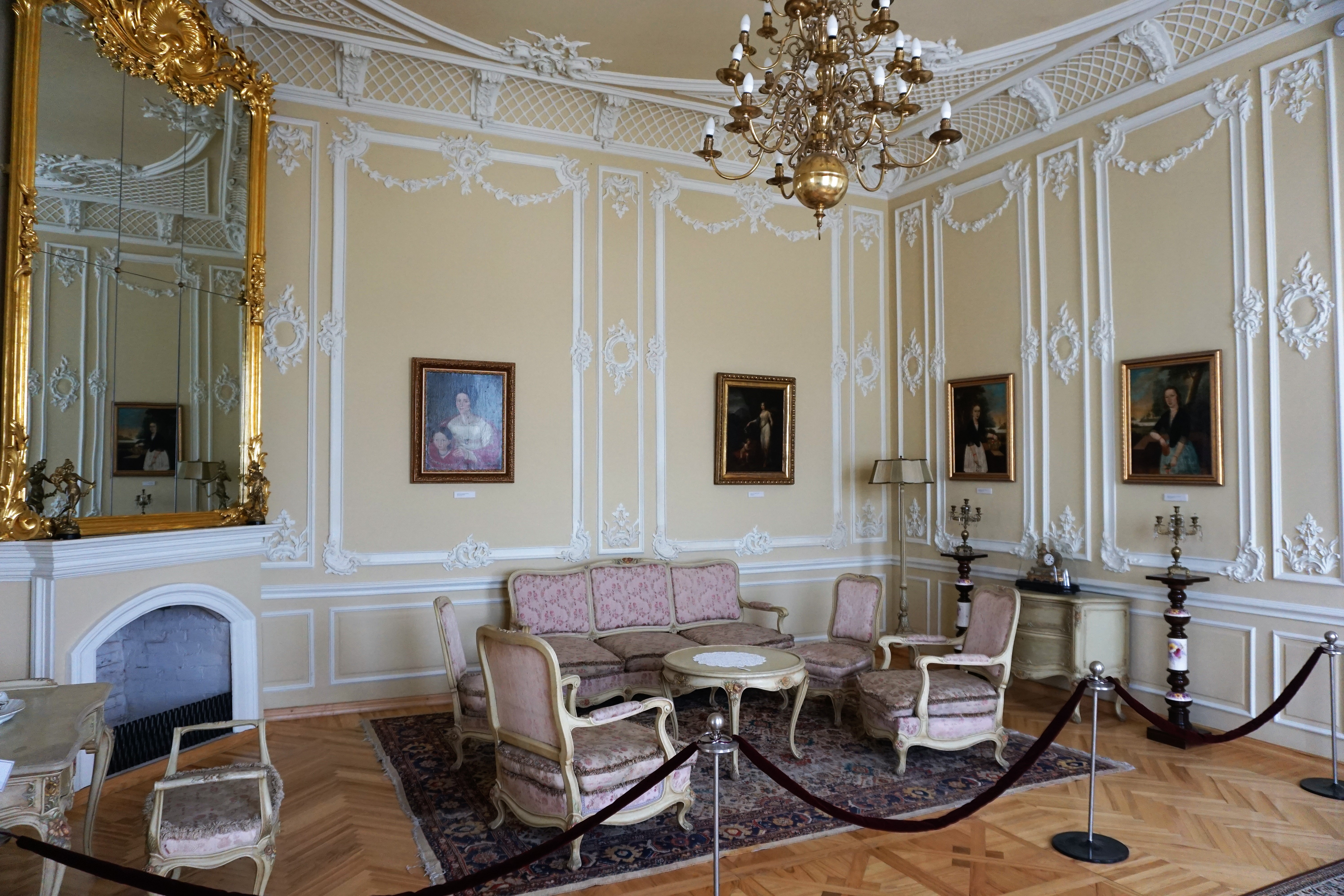 Ladies' salon in Renavas manor